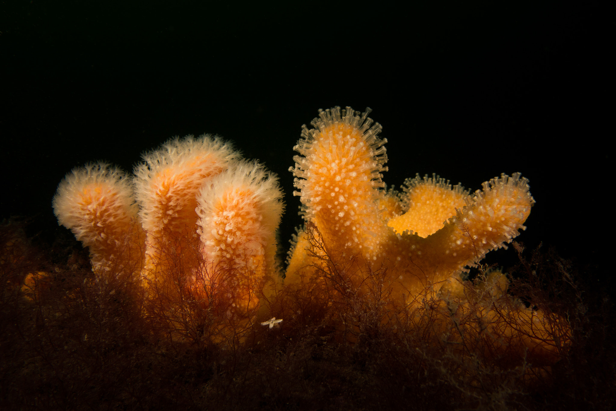 500px provided description: Colonies of these soft corals are known to live for over 20 years in the cold northern Atlantic Ocean. [#orange ,#colorful ,#underwater ,#coral ,#undersea ,#soft coral ,#polyps ,#sandefjord ,#scubadive ,#scuba dive ,#leikerane]